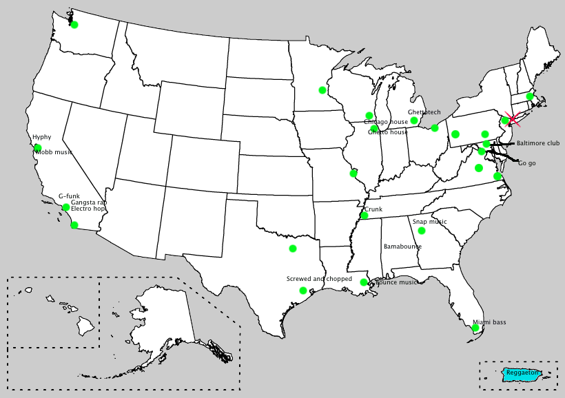 Adapted from the public domain map Image:Map of USA showing unlabeled state boundaries.png Marks: Red X = New York city, origin of hip hop music and culture, and home to many genres such as East Coast rap, old school hip hop, hip house, hardcore and gangsta rap Light green circles: other urban centers for hip hop: Baltimore, Richmond, Washington D.C., Boston, Newark, Philadelphia, Minneapolis-St. Paul, St. Louis, Detroit, Cleveland, Milwaukee, Chicago, Dallas-Forth Worth, New Orleans, Atlanta, Memphis, Houston, Hampton Roads, Los Angeles, Oakland/San Francisco: Hyphy Filled in: Light blue = Puerto Rico, home to a local hip hop scene and a major source for reggaeton, a genre distinct from but related to hip hop